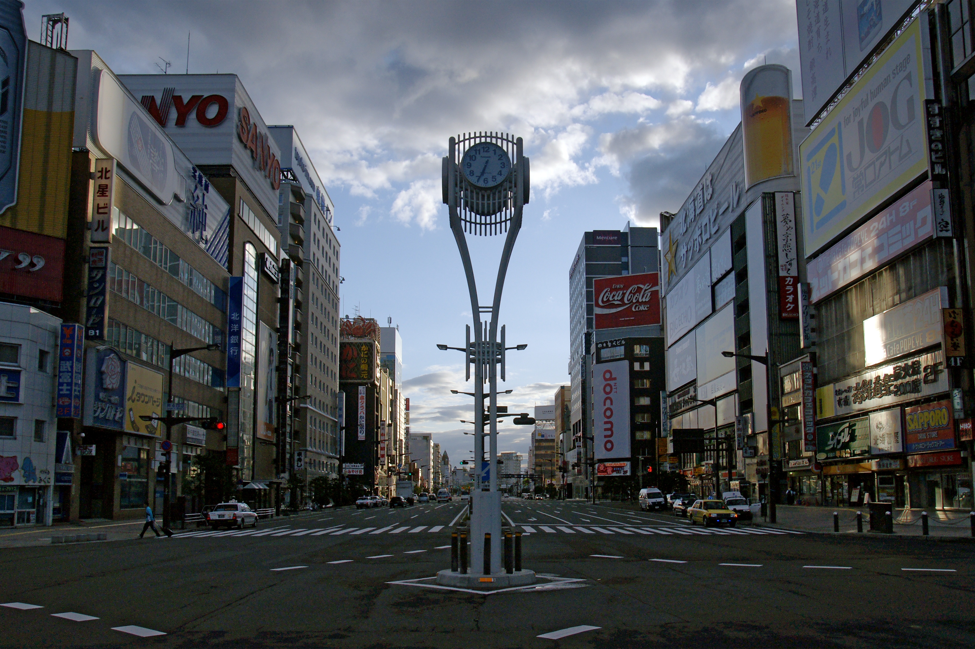 Sapporo Ekimae-dori in Sapporo, Hokkaido prefecture, Japan